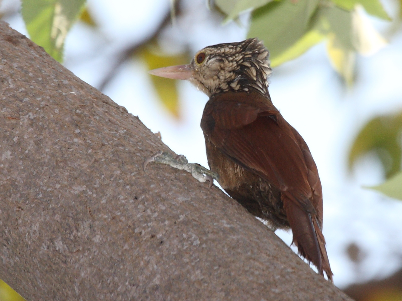 Straight-billed Woodcreeper Dendroplex picus. Taken in Panama.